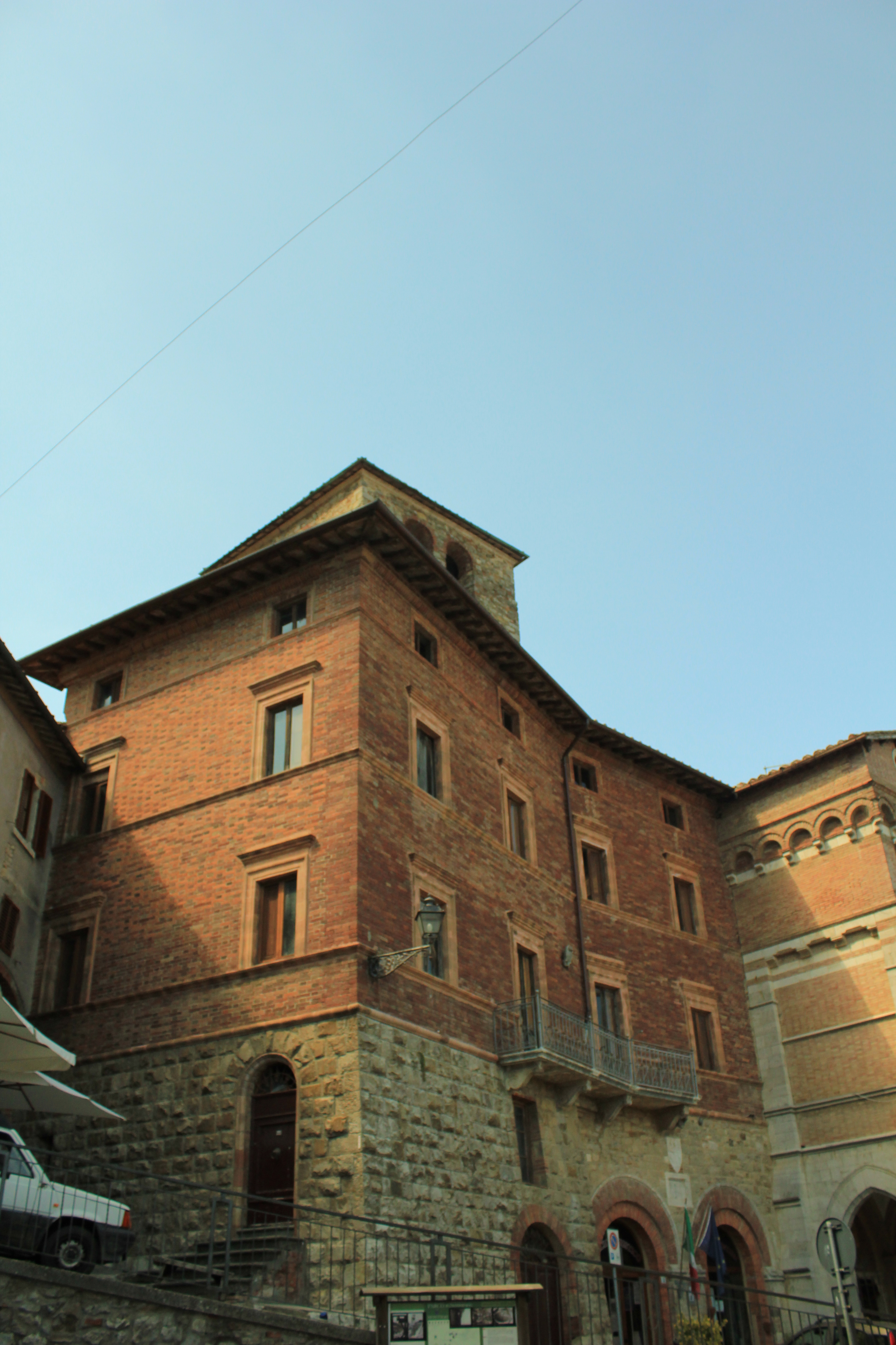 Palazzo dei Marchesi Papi Matii in Montieri, Grosseto.